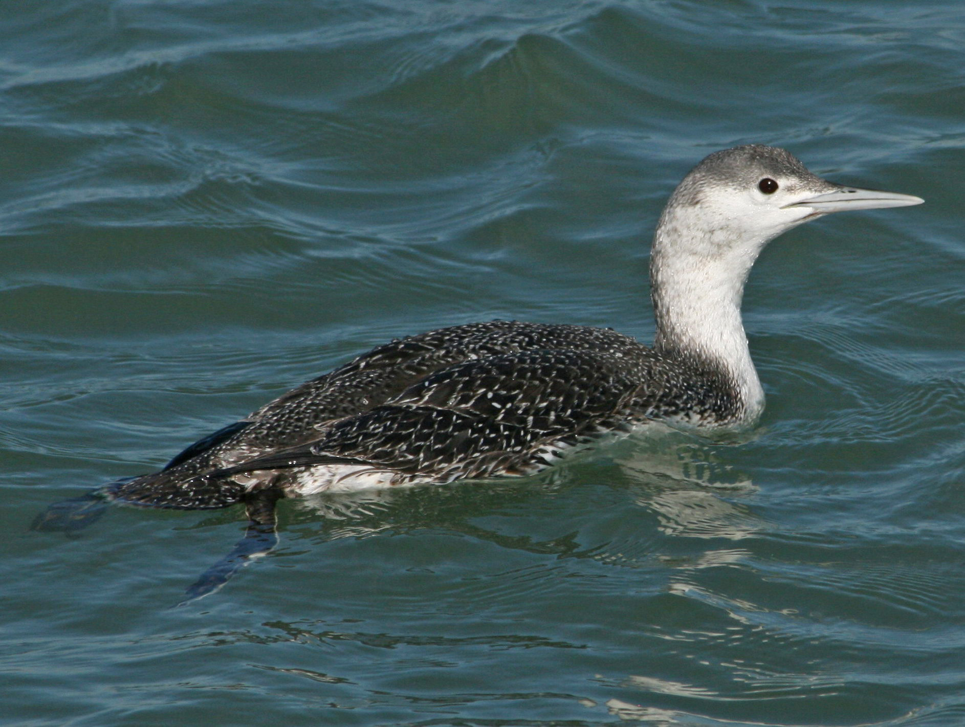 Red-throated Loon or Red-throated Diver (Gavia stellata) - North Carolina